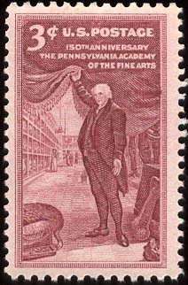 US postage stamp, 1955.